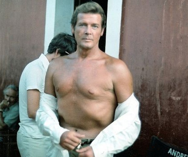 Roger Moore posing on the set of The Sea Wolves (1980), Goa, December, 1979.